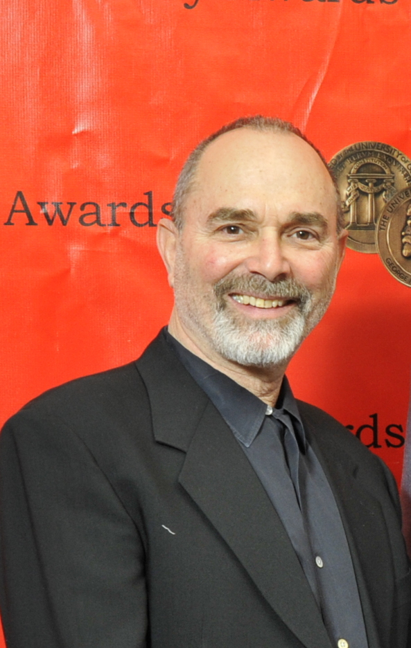 Mark Benjamin, Marc Levin and Forest Whitaker 69th Annual Peabody Awards Luncheon Waldorf=Astoria Hotel New York, NY USA May 17, 2010